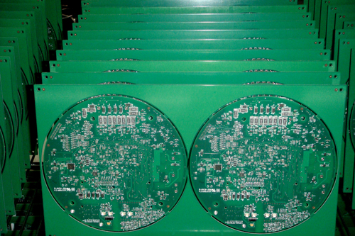 Electronic Printed Circuit Board